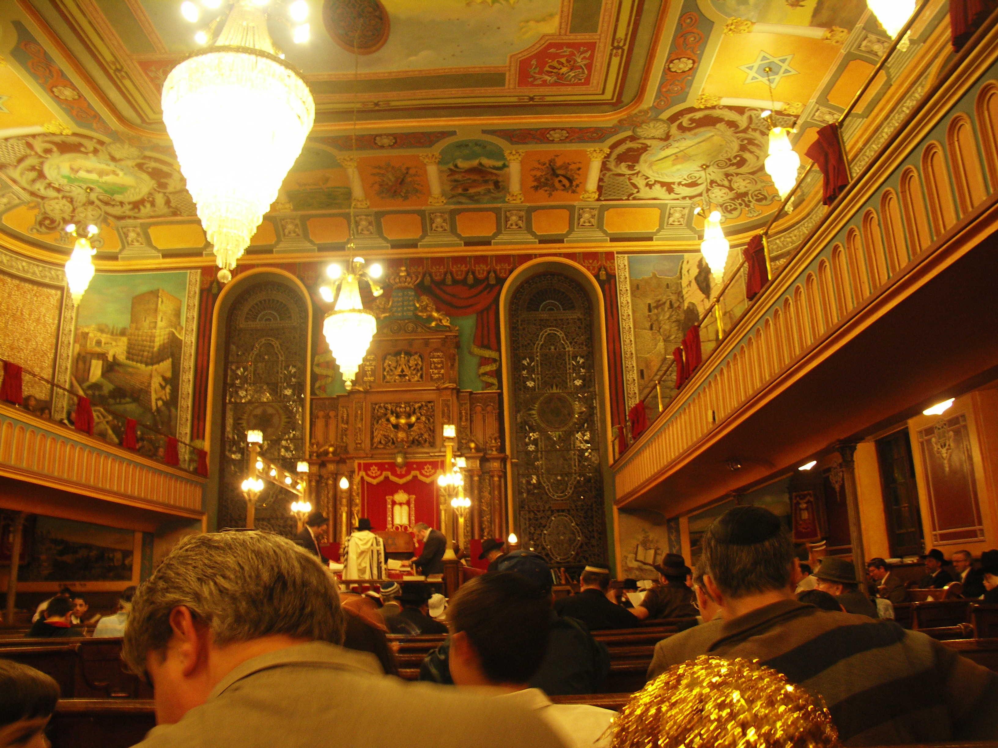 Purim celebration in Bialystoker 2007